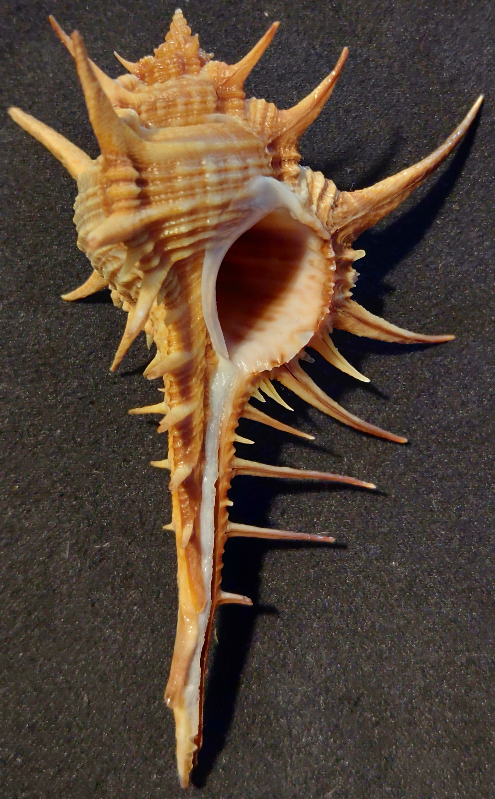 Murex Falsitribulus Front